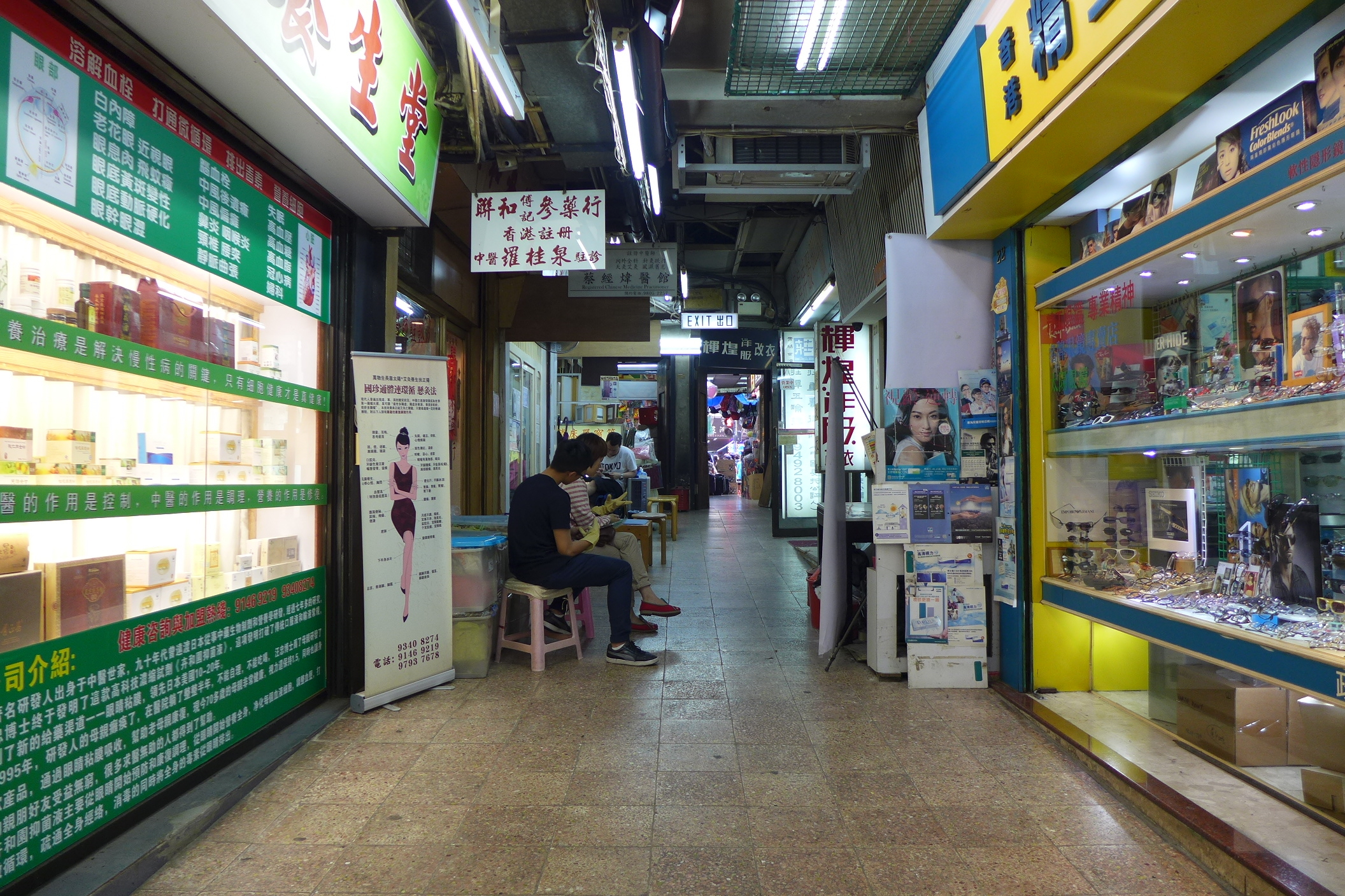 State Theatre Building GF Shops